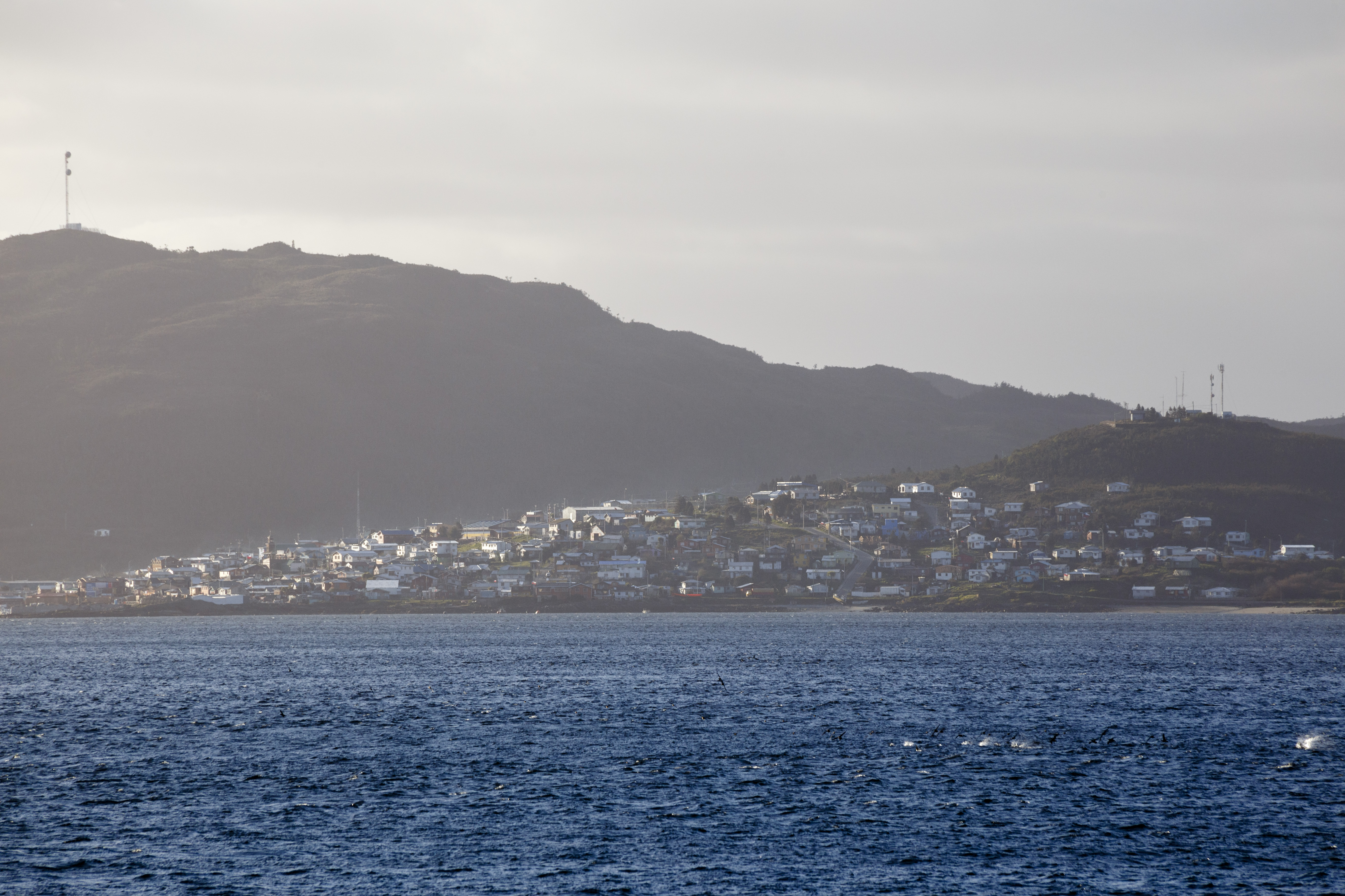 Melinka, desde canal Leucayec, al sureste. Archipiélago de las Guaitecas, Chile.